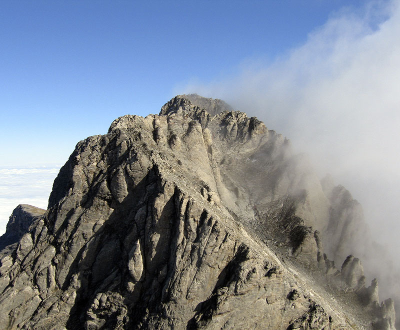 Mytikas, summit of Mount Olympus